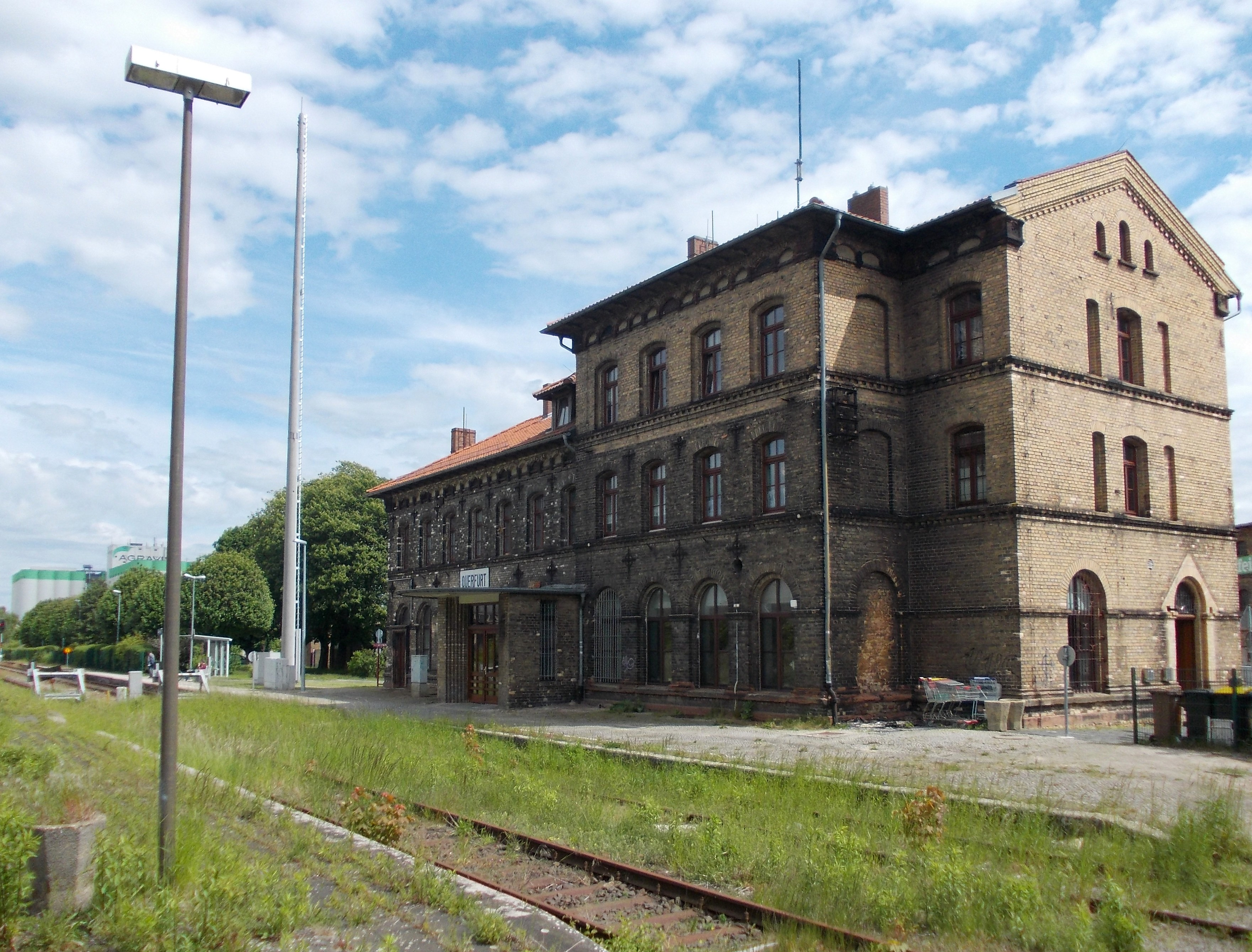 Querfurt train station (district: Saalekreis, Saxony-Anhalt)